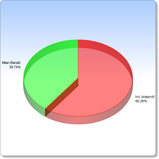 The results of the Croatian presidential election held on January 10, 2010.